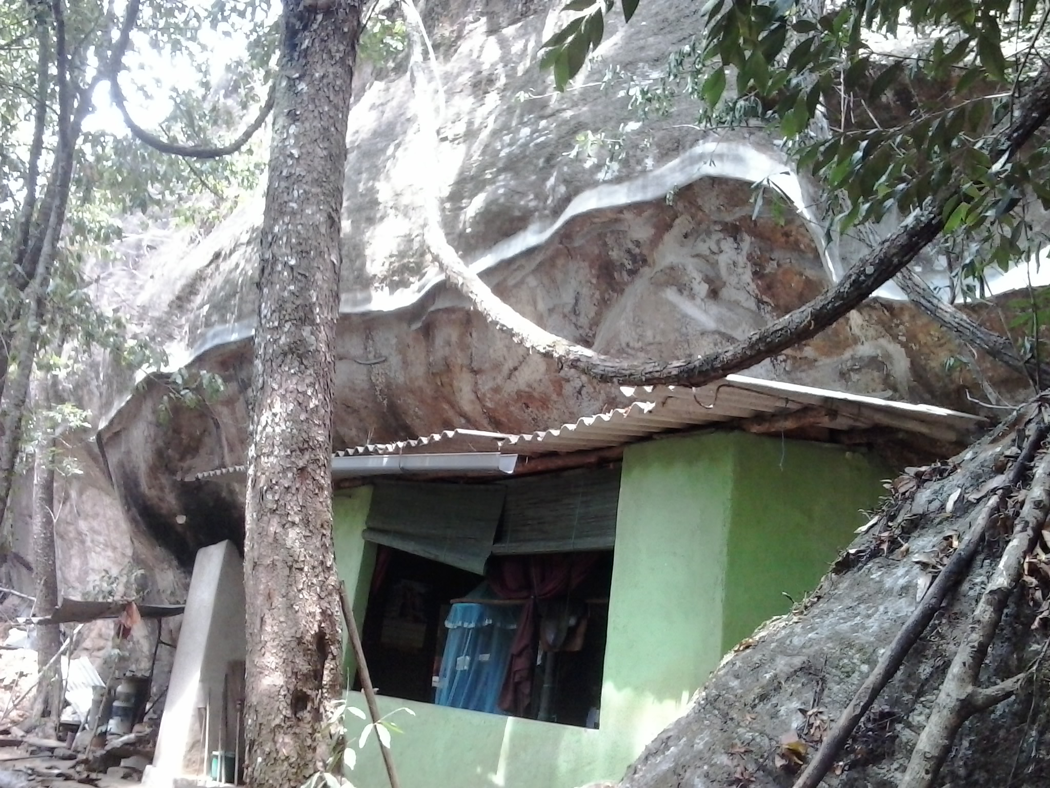 a reconstructed cave